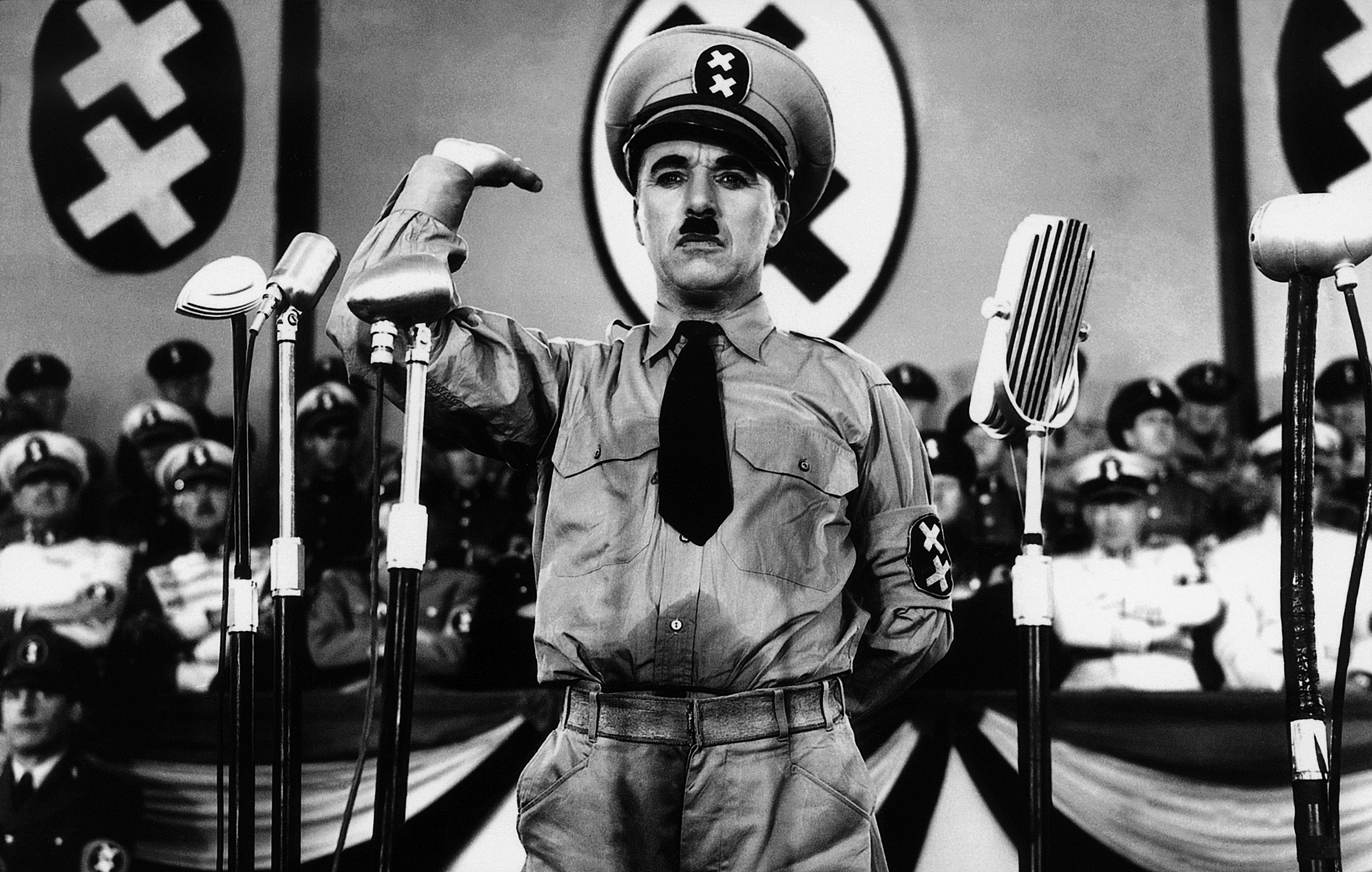 Charlie Chaplin from the film The Great Dictator (1940) (with "double cross" emblem in background and on cap).